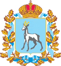 Samara oblast, coat of arms